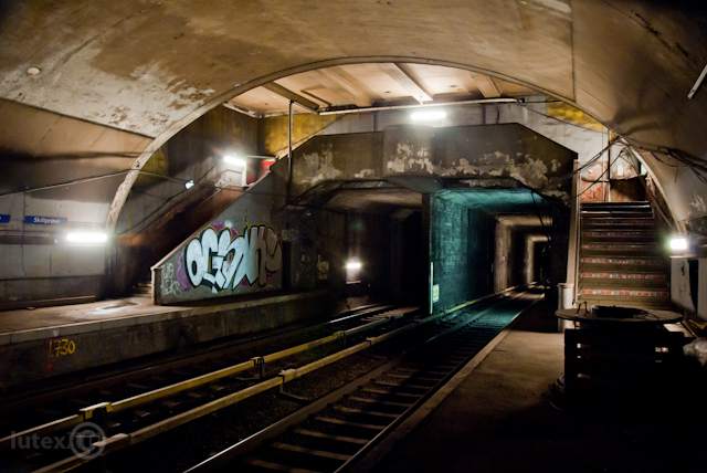 Valkyrie Plass Abandoned T-Bane station, August 2011